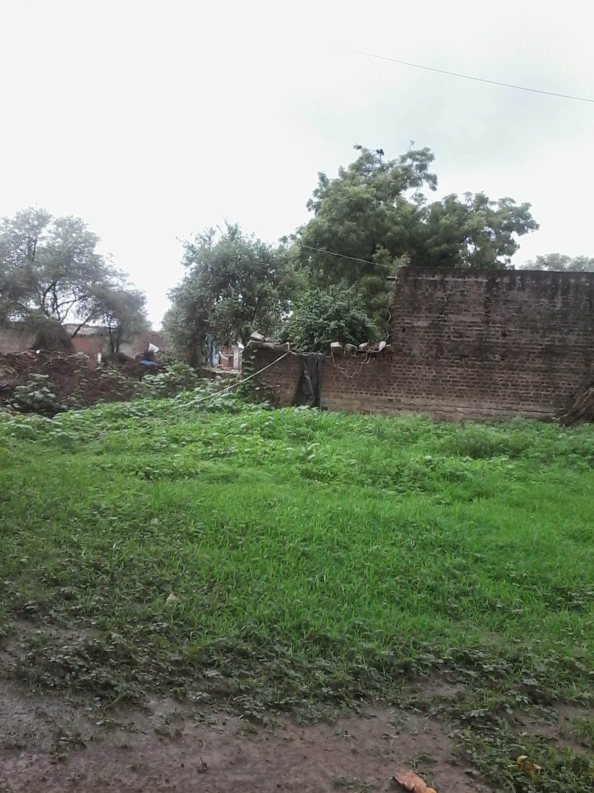 nimbu ka ped